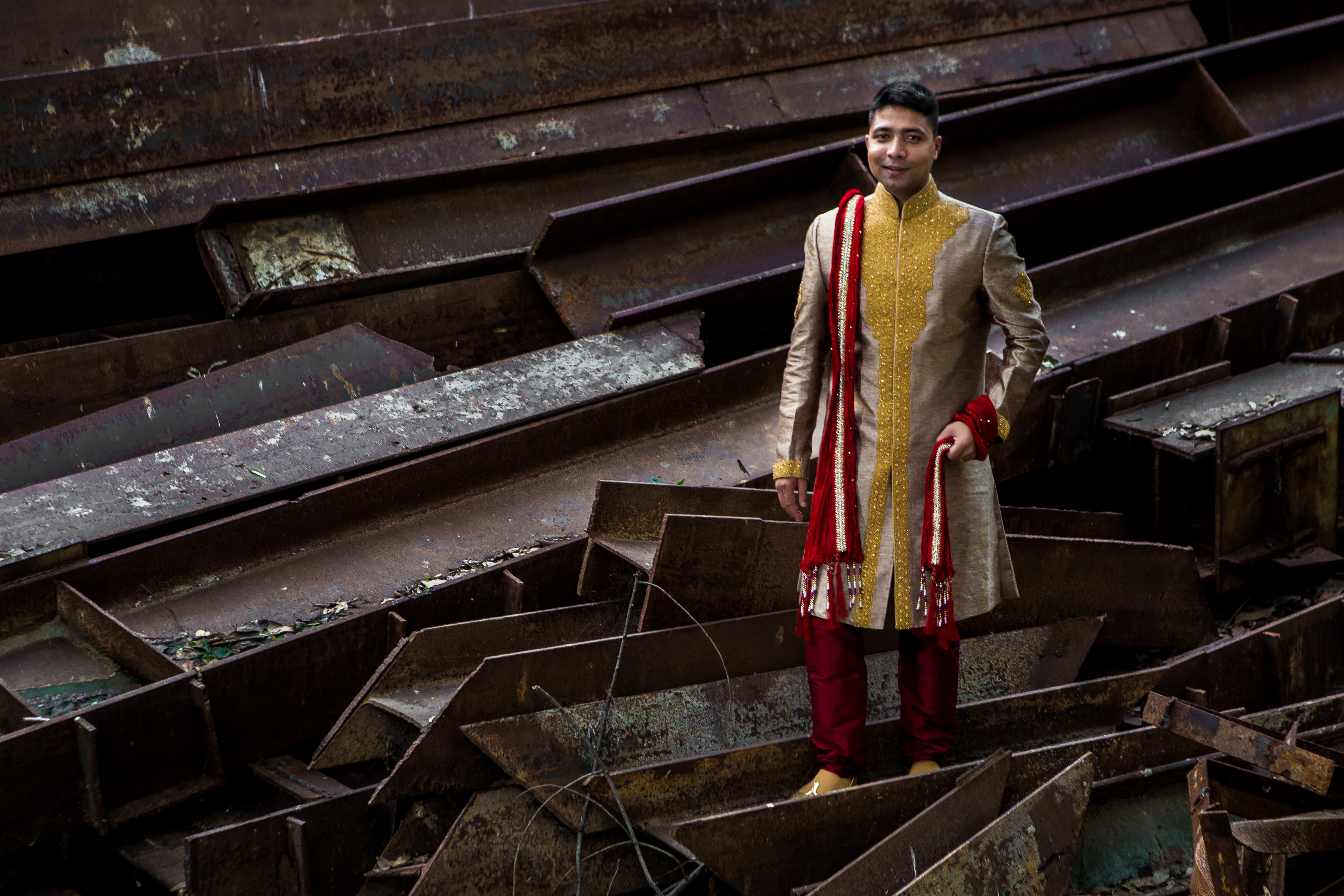 Groom, Bangladesh